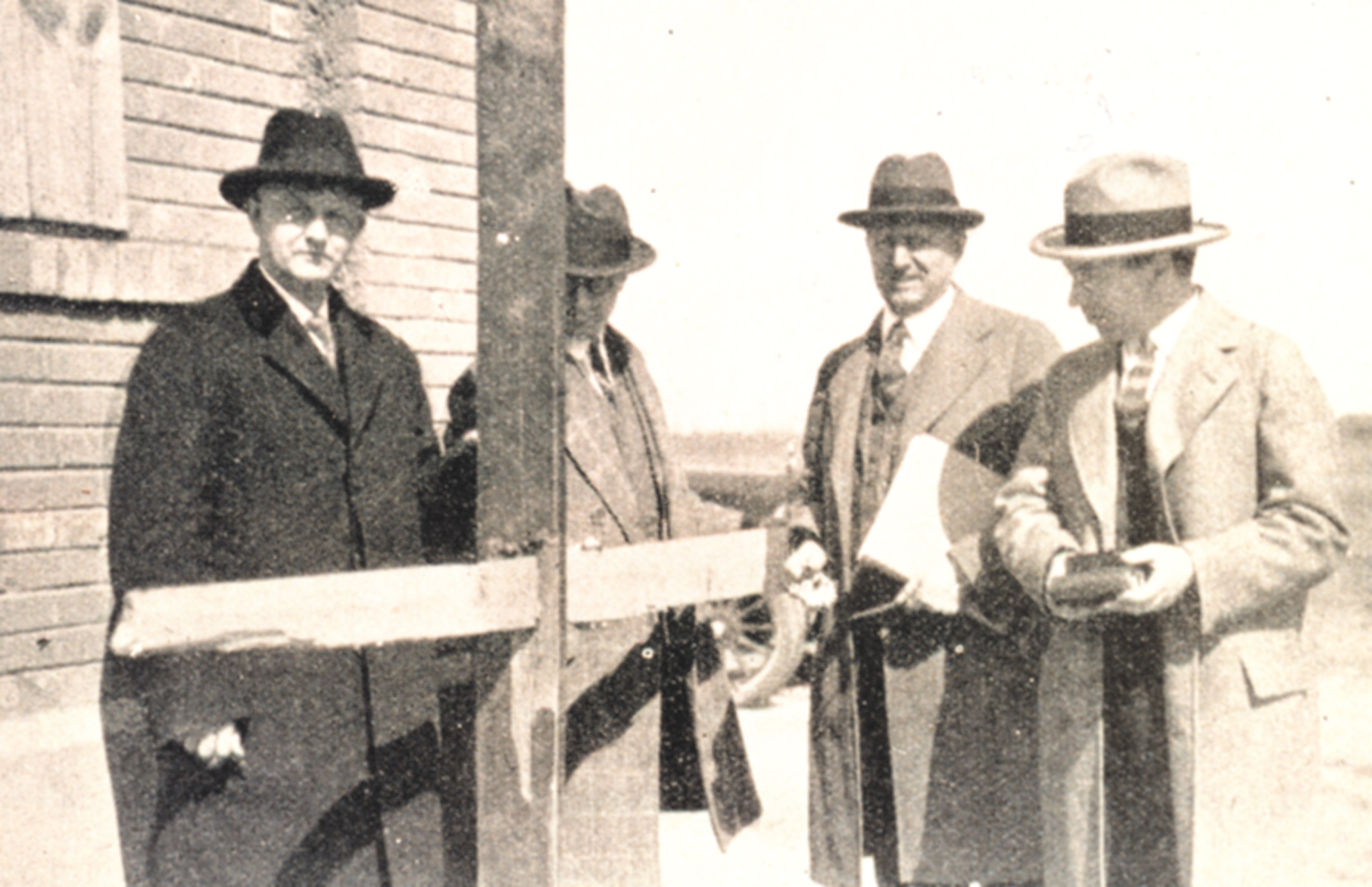 Engineering committee examining a 1X5 inch board which was driven through a 2X6 plank. Somewhere along the path of the Tri-State Tornado, the longest-lived and longest path of any recorded tornado. It traveled over 300 miles from SE Missouri to Indiana and killed over 600. Southern Illinois. March 18, 1925.